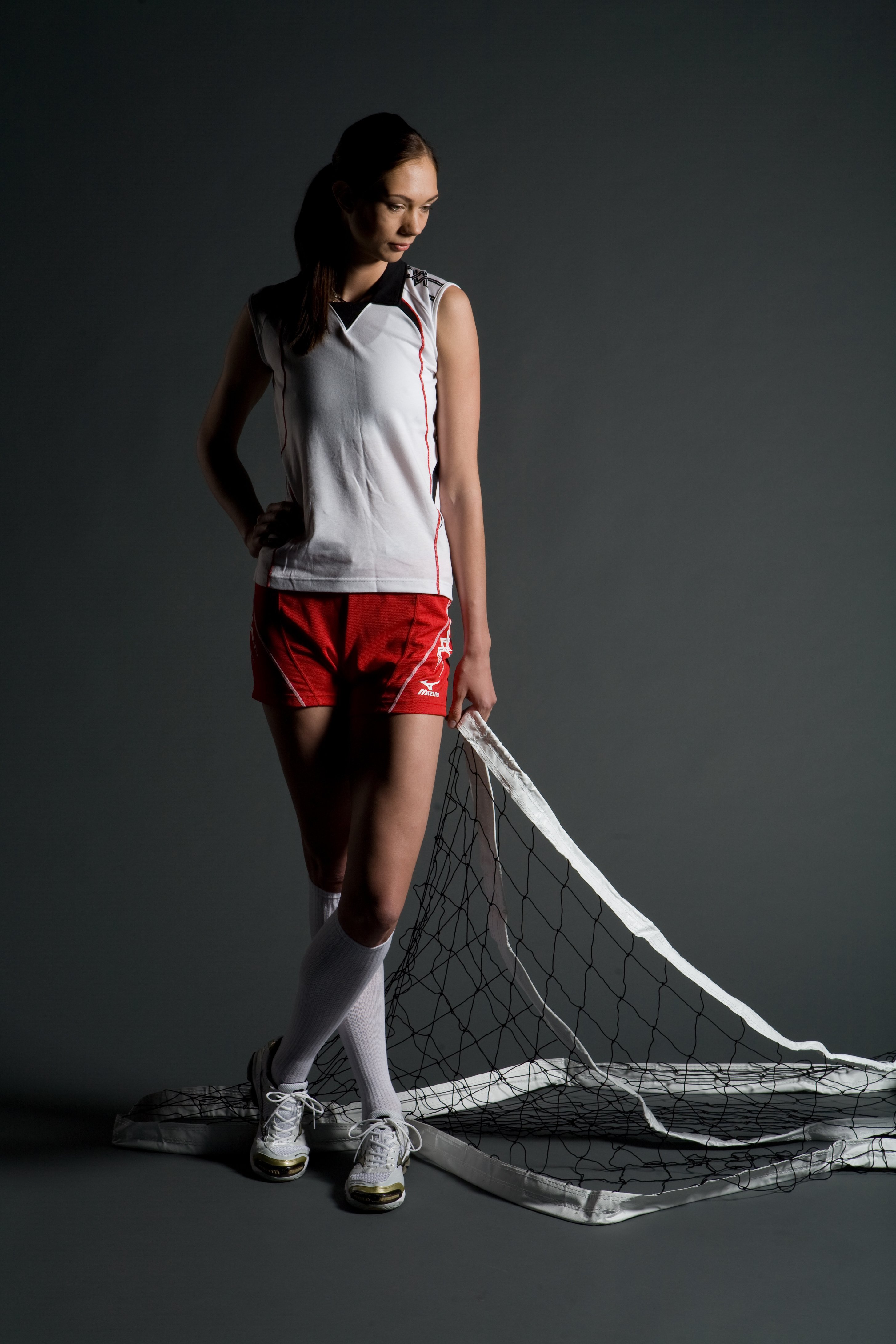 Yekaterina Gamova